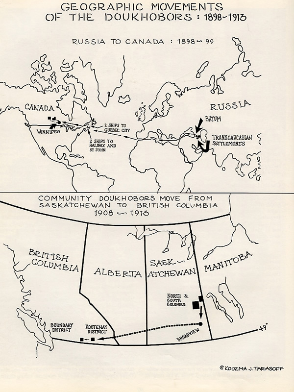 Geographic movements of the Doukhobors In Western Canada from 1898-1913